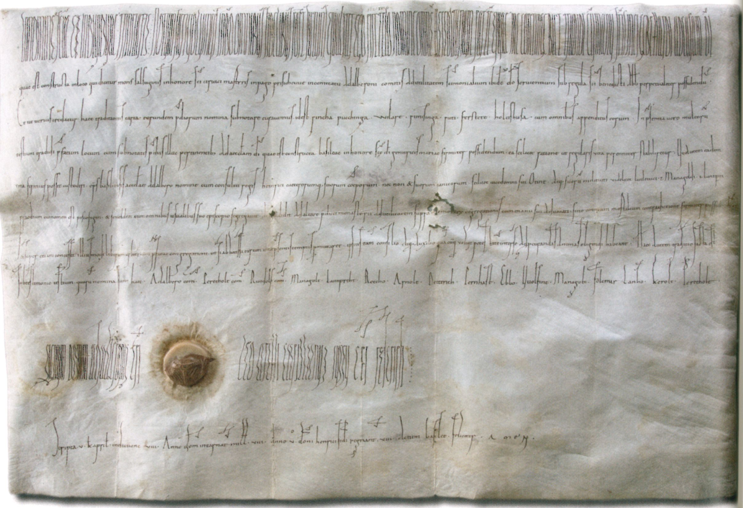 document of the bishop of Basel Adalbero II. dated 1010 and first naming the village of Bischoffingen (piscofigin)